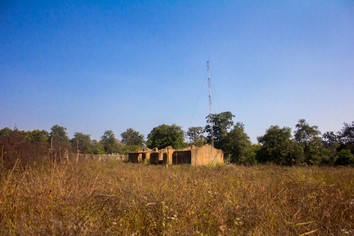 Non functional Datunama forest beat in Sunabeda